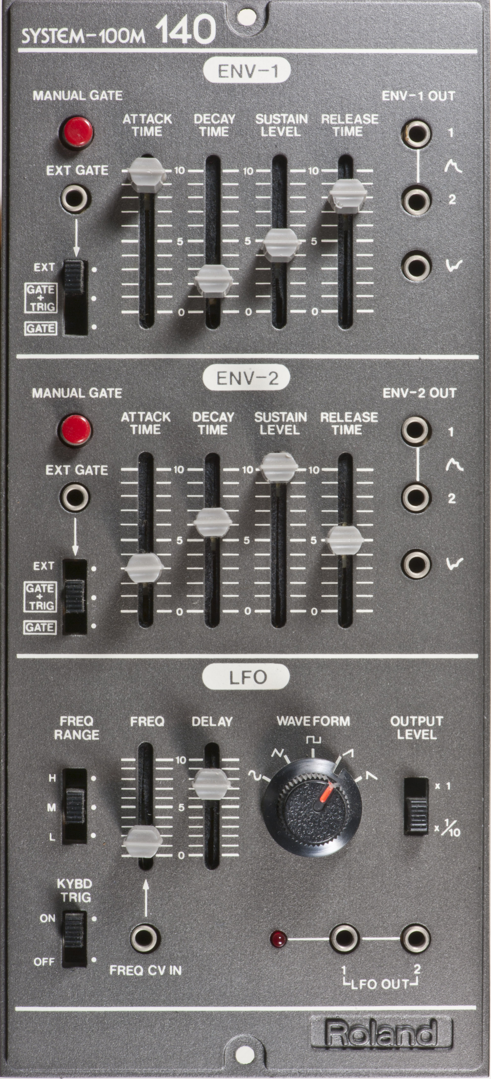 ROLAND Modular synthesizer SYSTEM-100M, Modul 140 (dual envelope ADSR, LFO) ADSR's (attack, decay, sustain, release) can be triggered from the keyboard's gate or gate + trigger, from an external gate, or manually with the front panel pushbutton. Both envelope generators provide inverted and normal outputs. Voltage controlled low frequency oscillator (LFO) has a built-in delay for delayed vibrato effects. KYBD TRIG switch allows phase locking of LFO output to keyboard trigger pulse. The 140-module and the 110 module provide the minimum basic elements necessary to produce a single synthesizer voice. Two voices can be provided with the added use of modules 112,121, and 130.